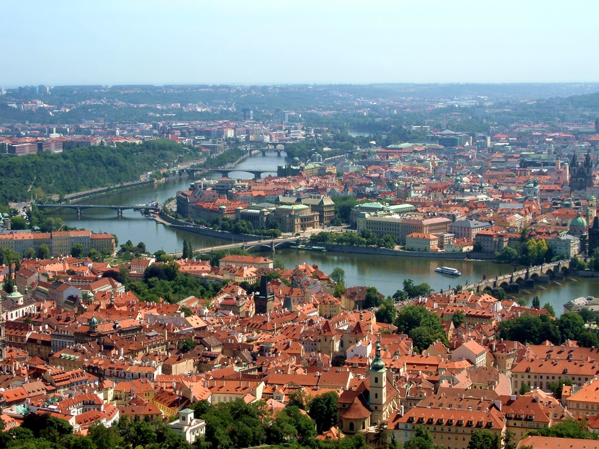 Copied from the English Wikipedia, where it has been placed by its author (Havaska), and released to the public domain. Original page